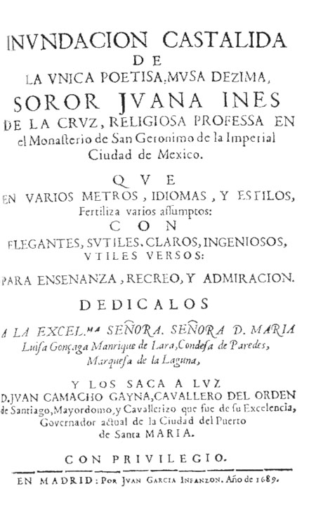 First part of Sor Juana's complete works, Madrid, 1689.